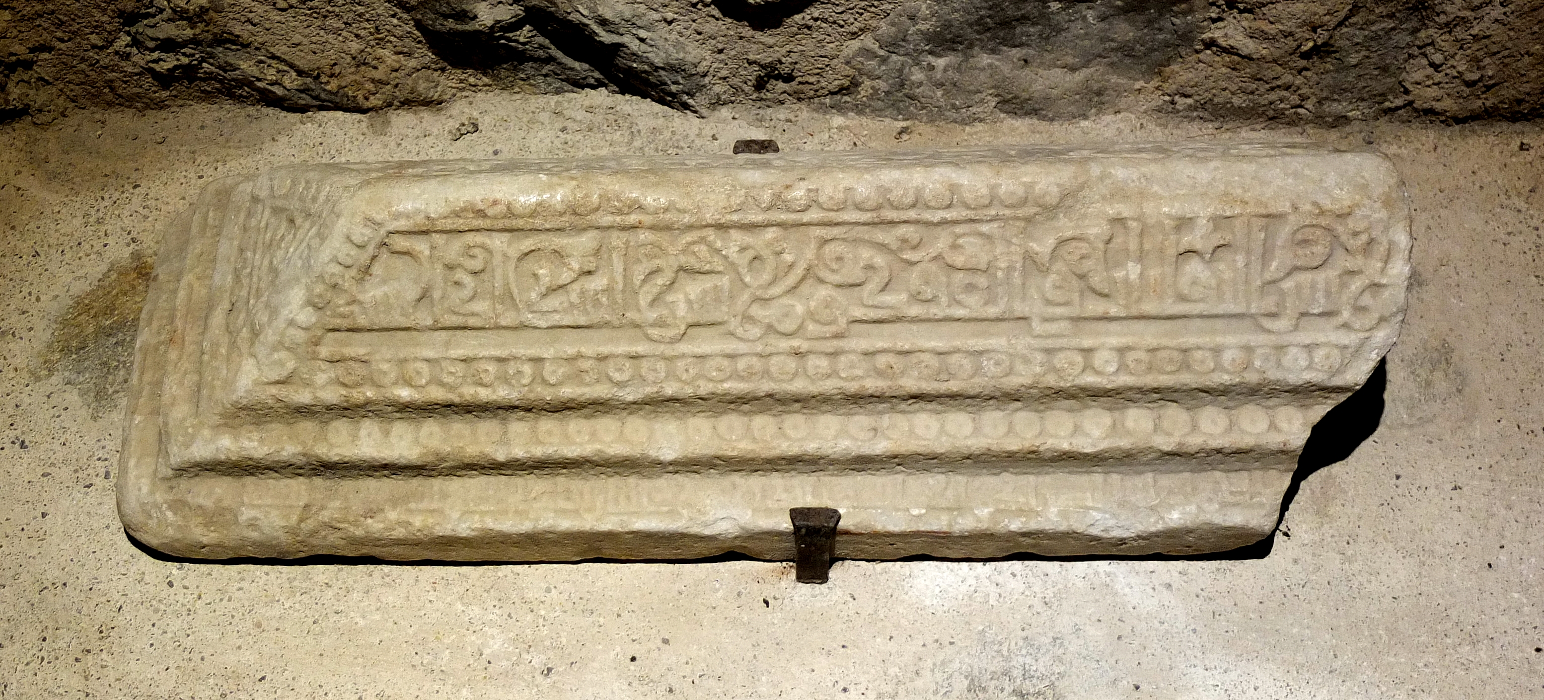 Fragmentary Islamic tombstone (11th century) with Arabic text from the Quran in the Romanesque church St-André-de-Sorède, Saint-André, Pyrénées-Orientales. Ministère de la Culture (France): Base Mémoire: AP66W03331